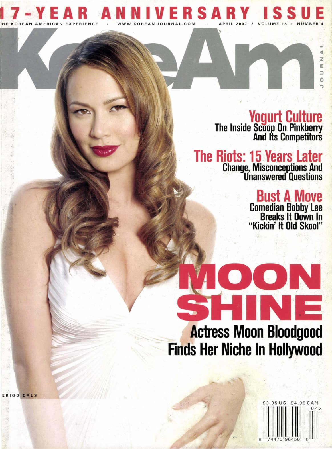 Magazine cover of KoreAm from April 2007; Moon Bloodgood